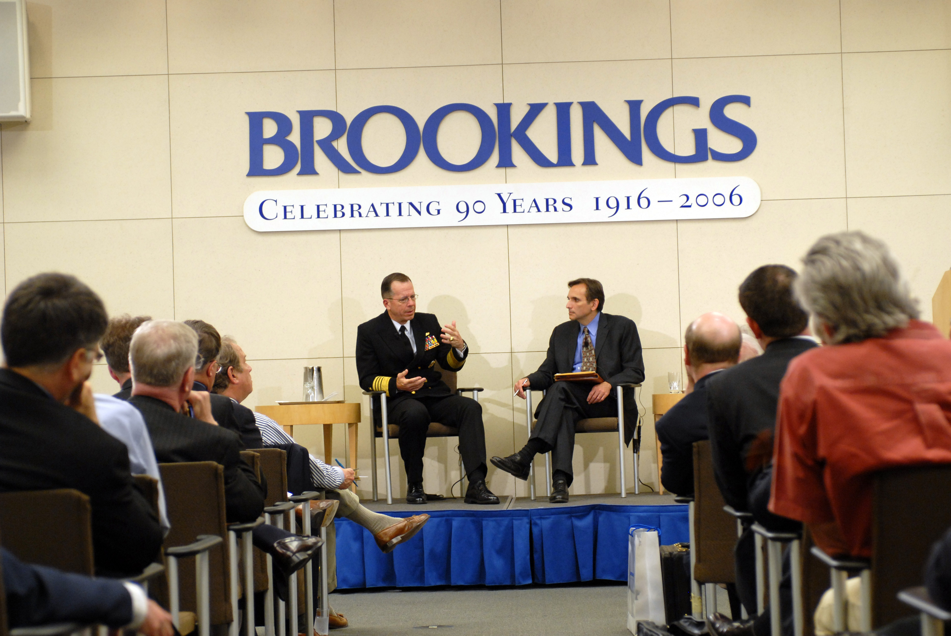 WASHINGTON (April 3, 2007) - Chief of Naval Operations (CNO) Adm. Mike Mullen answers questions presented by Vice President and Director, Foreign Policy Studies Brookings Institution, Carlos Pascual. Adm. Mullen gave a speech and answered questions on the Navy's effort to formulate a new maritime strategy and about the challenges the service faces over the long term beyond the war in Iraq, during a presentation sponsored by the institution entitled: "The Nation's Navy: Beyond Iraq, Sea Power for a New Era". The Brookings Institution is a private nonprofit organization devoted to the independent research and innovative policy solutions to provide high quality analysis and recommendations for decision makers in the U.S. and abroad facing an increasingly interdependent world. U.S. Navy photo by Mass Communication Specialist 1st Class Chad J. McNeeley (RELEASED)